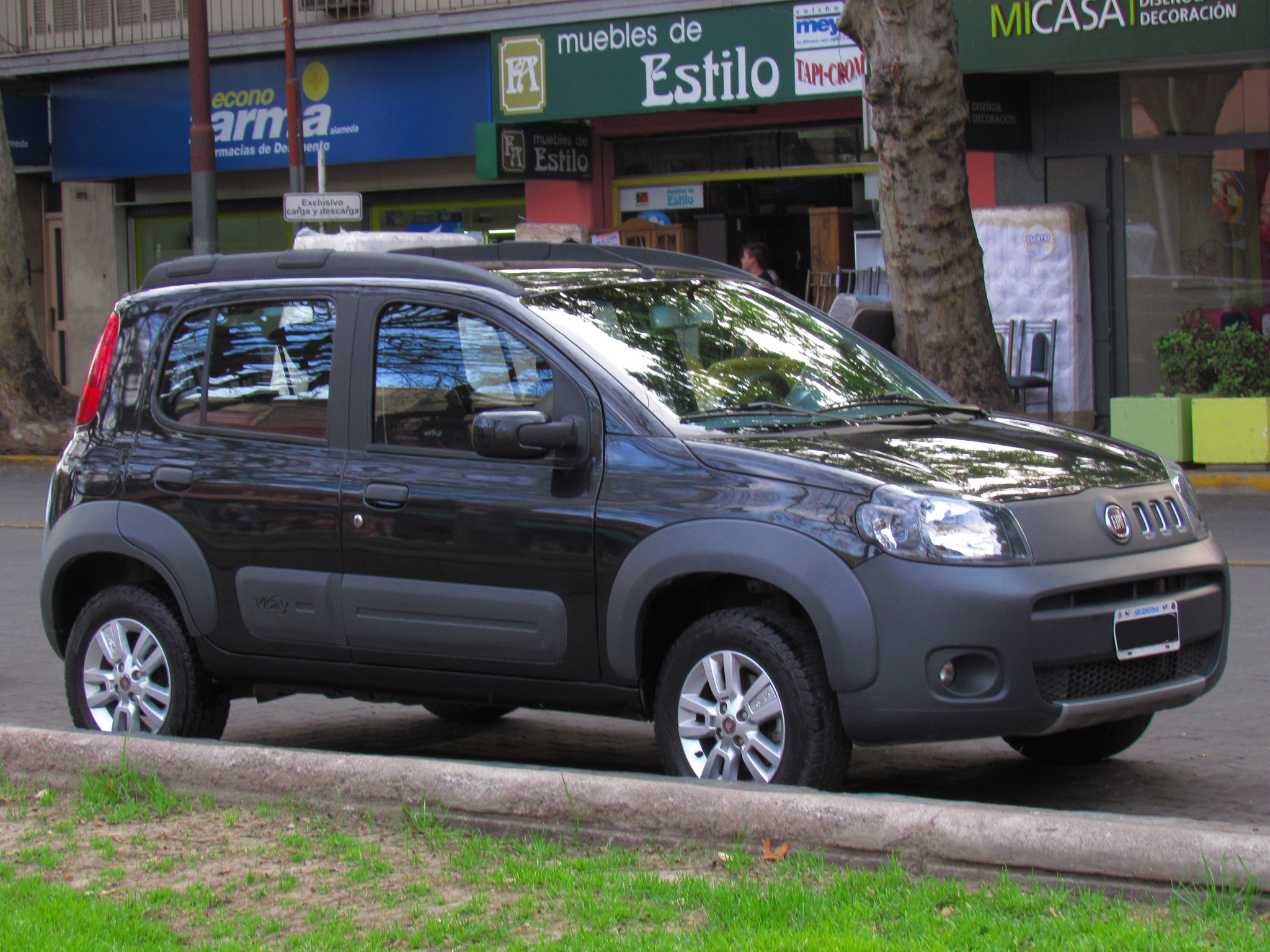 Made in Brazil and sold in almost all southamerican countries except Chile. Fiat is very unpopular here in Chile.